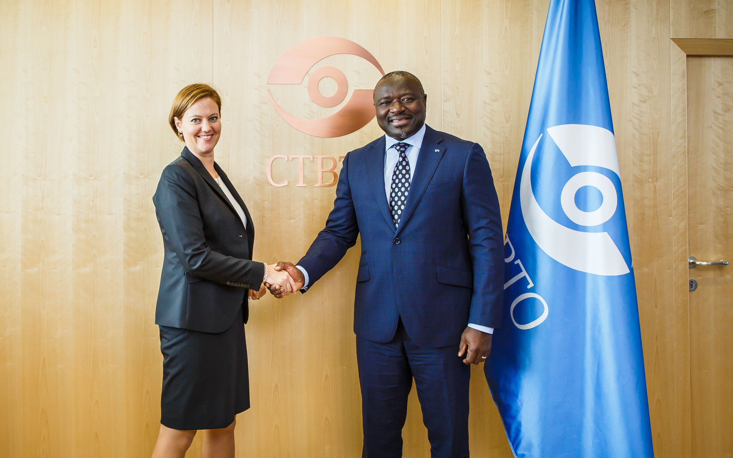 HE Marit Berger Røsland, State Secretary, Ministry of Foreign Affairs of the Kingdom of Norway, is paying a courtesy visit to the Executive Secretary of the Comprehensive Nuclear-Test-Ban Treaty Organization, on Monday, 26 September 2016.